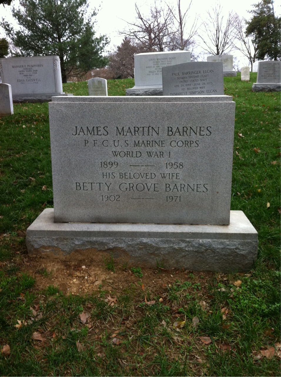 Grave of James M. Barnes at Arlington National Cemetery